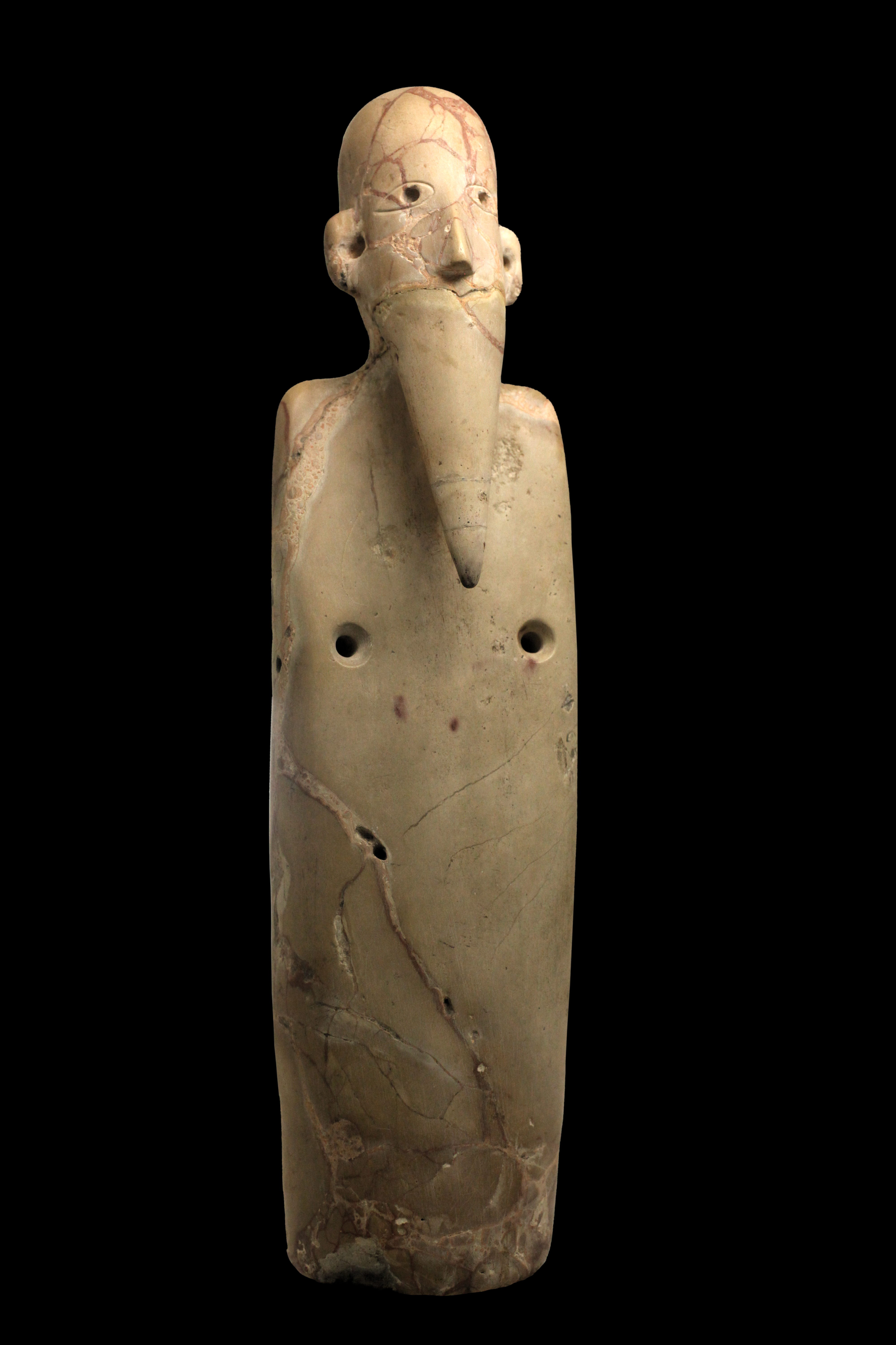 Bearded man. Southern Egypt, Gebelein.